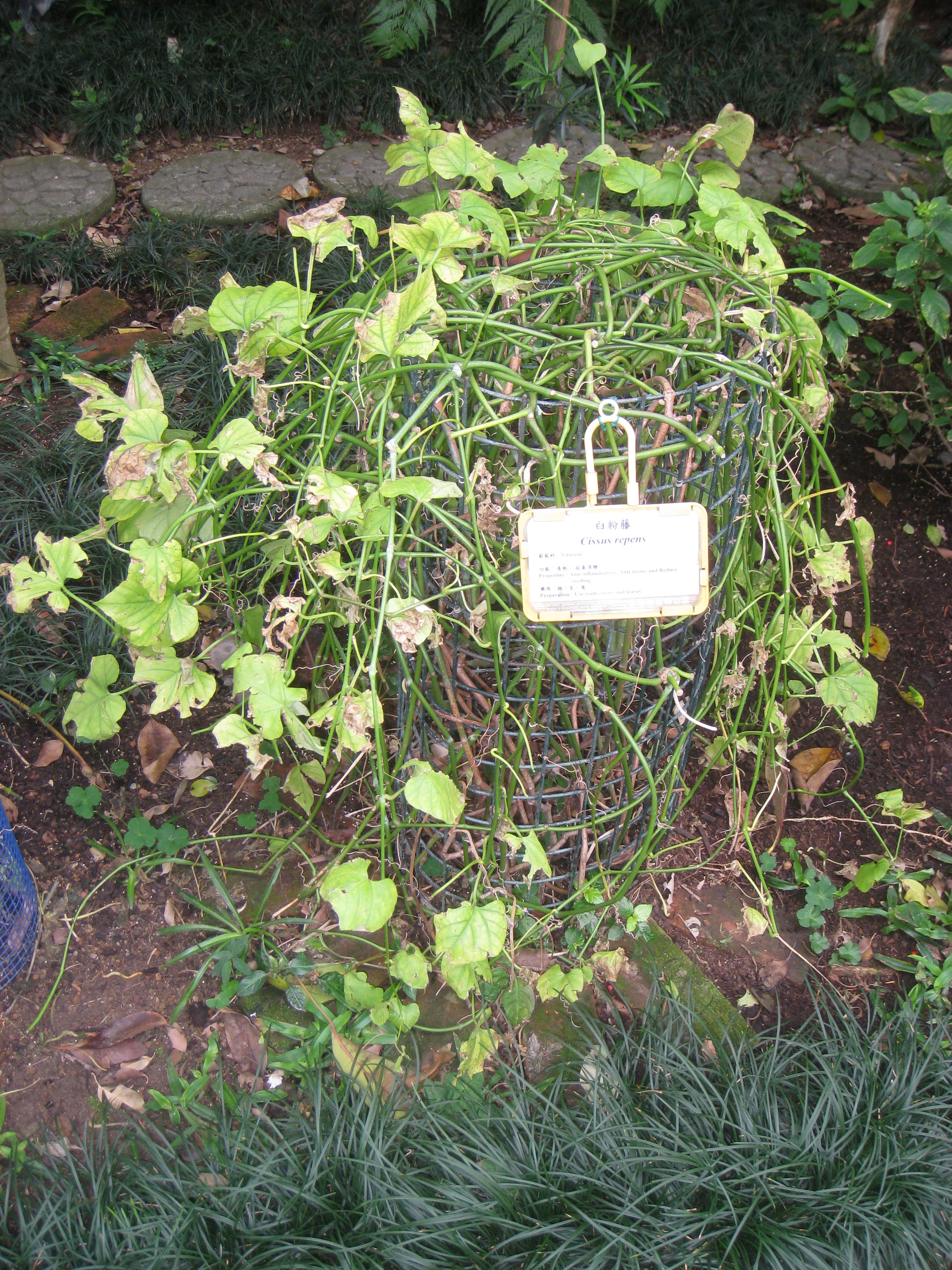 Cissus repens. Plant specimen in the Hong Kong Zoological and Botanical Gardens, Hong Kong.